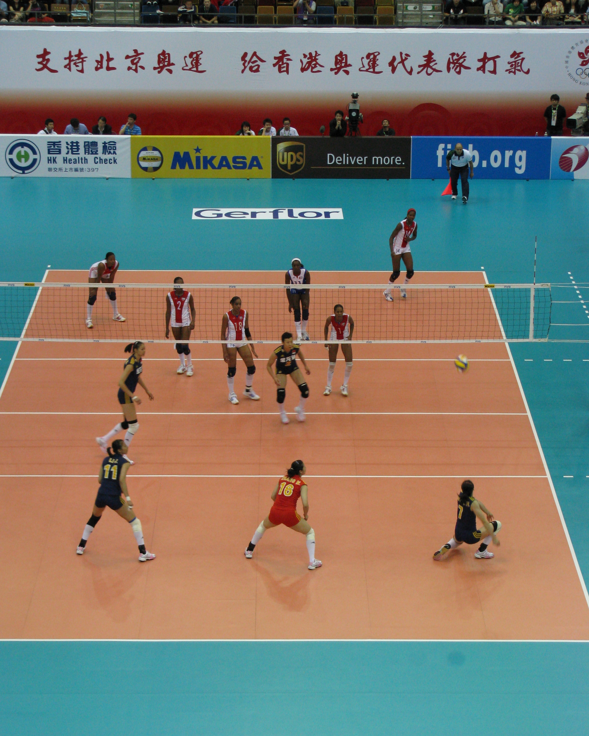 The crowd was very strongly behind China, with Liam enthusiastically banging his inflatable batons and joining the chants of "Zhōng - guó!" Article about the event: [1]